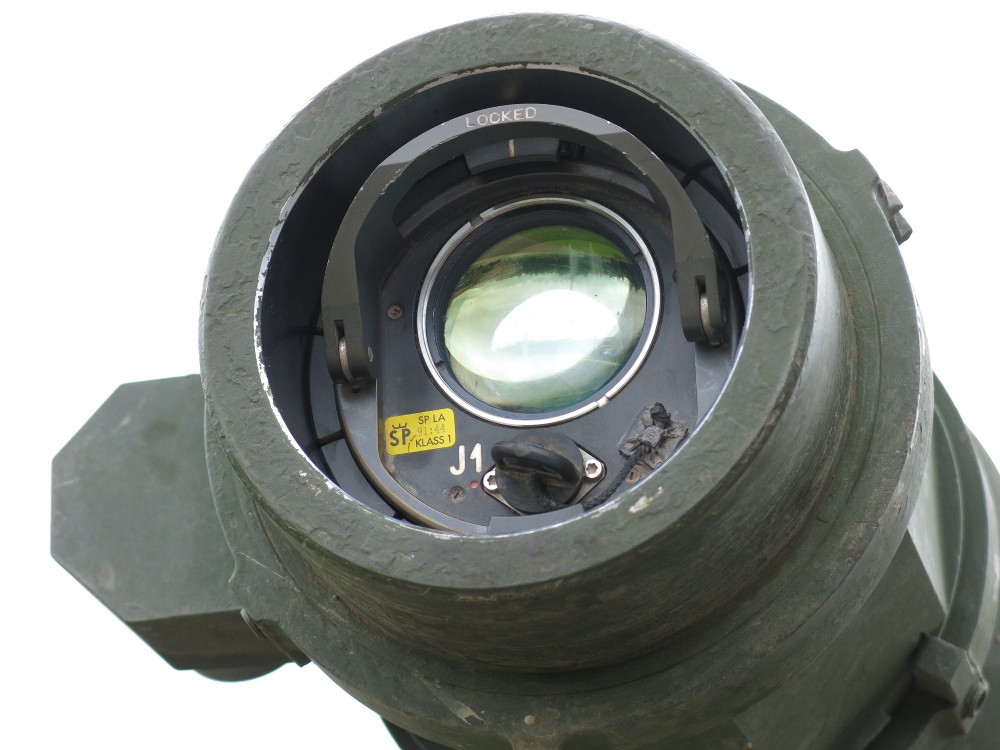 AGDUS Measurement unit (Saab BT-46 laser transmitter) in the muzzle of a German Leopard 2A5